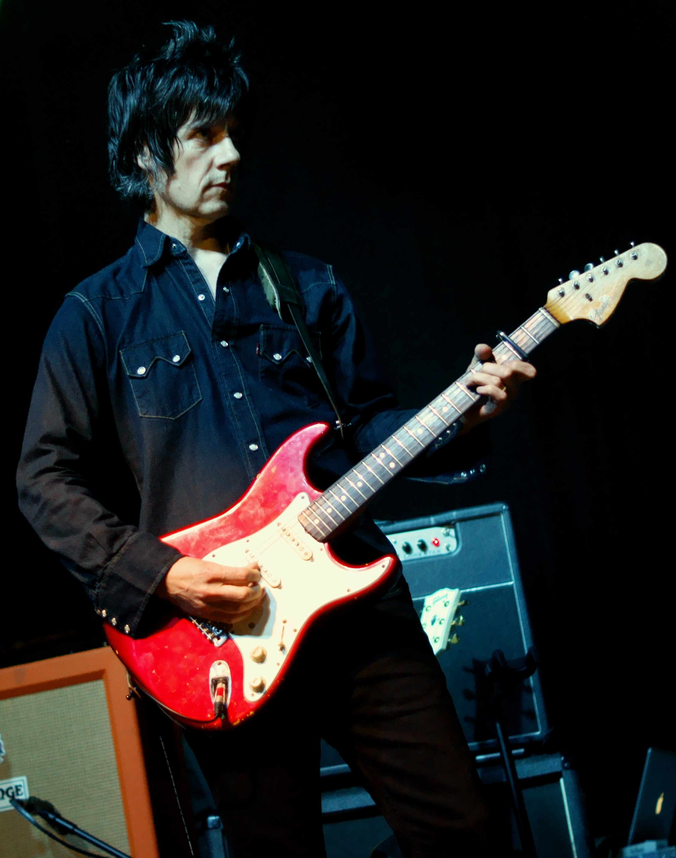 John Squire performing at Justice Tonight : In Aid of the Hillsborough Justice Campaign, HMV Ritz Manchester on Friday the 2nd of December 2011